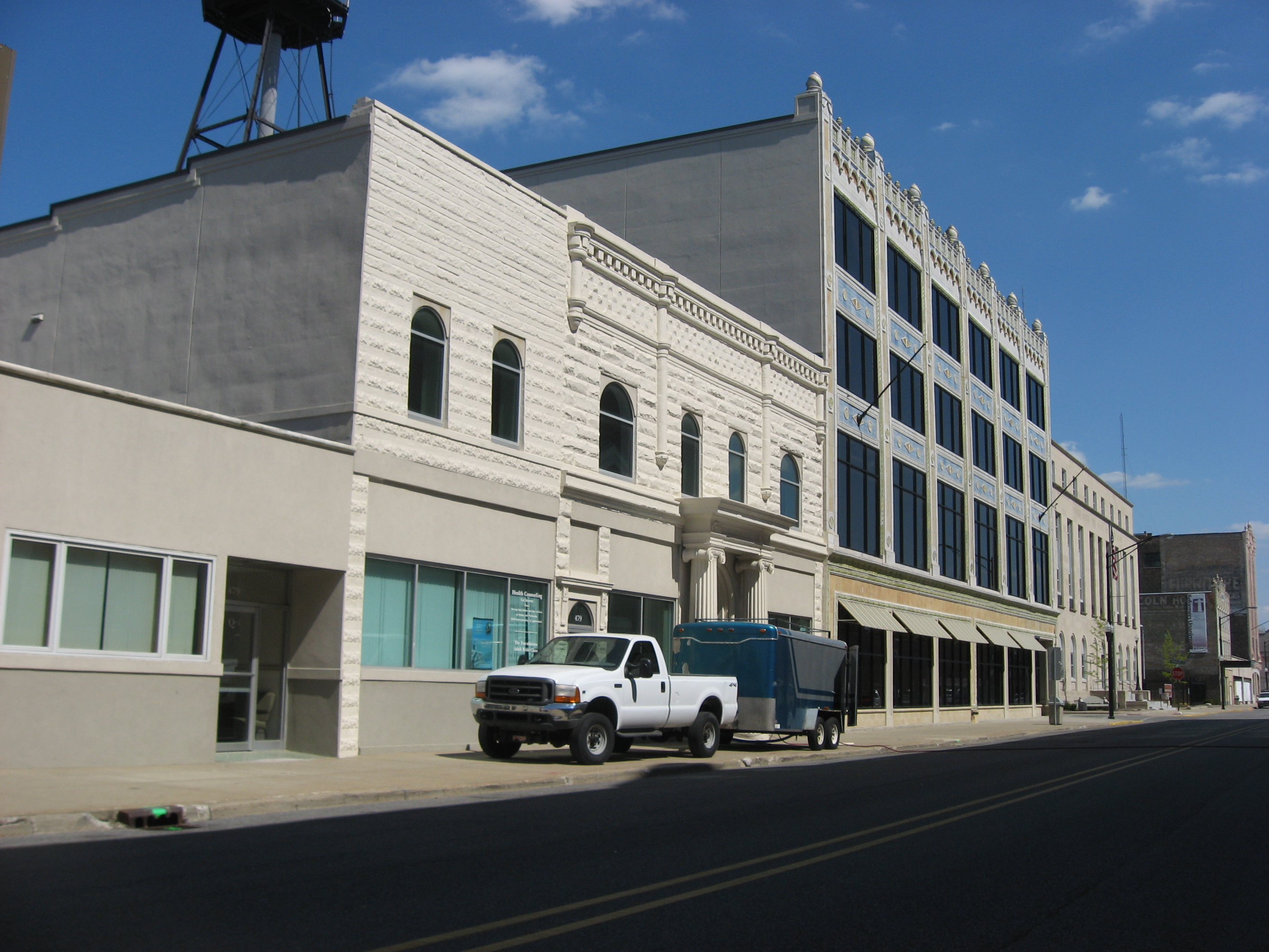 Buildings on State Street in downtown Hammond, Indiana, United States. From left to right, the prominent buildings are: 479 State: American Trust and Savings Bank Building, Neoclassical architecture, built 1899 481 State: L. Fish Building, Art Deco architecture, built 1927 507 State: Former U.S. Post Office and Courthouse, Neoclassical architecture, built 1939 This portion of State is part of the State Street Commercial Historic District, a historic district that is listed on the National Register of Historic Places.